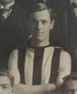 Photograph of Bert Colechin in 1919